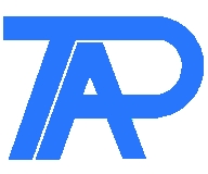 TAP LOGO